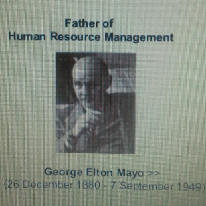 george elton mayo